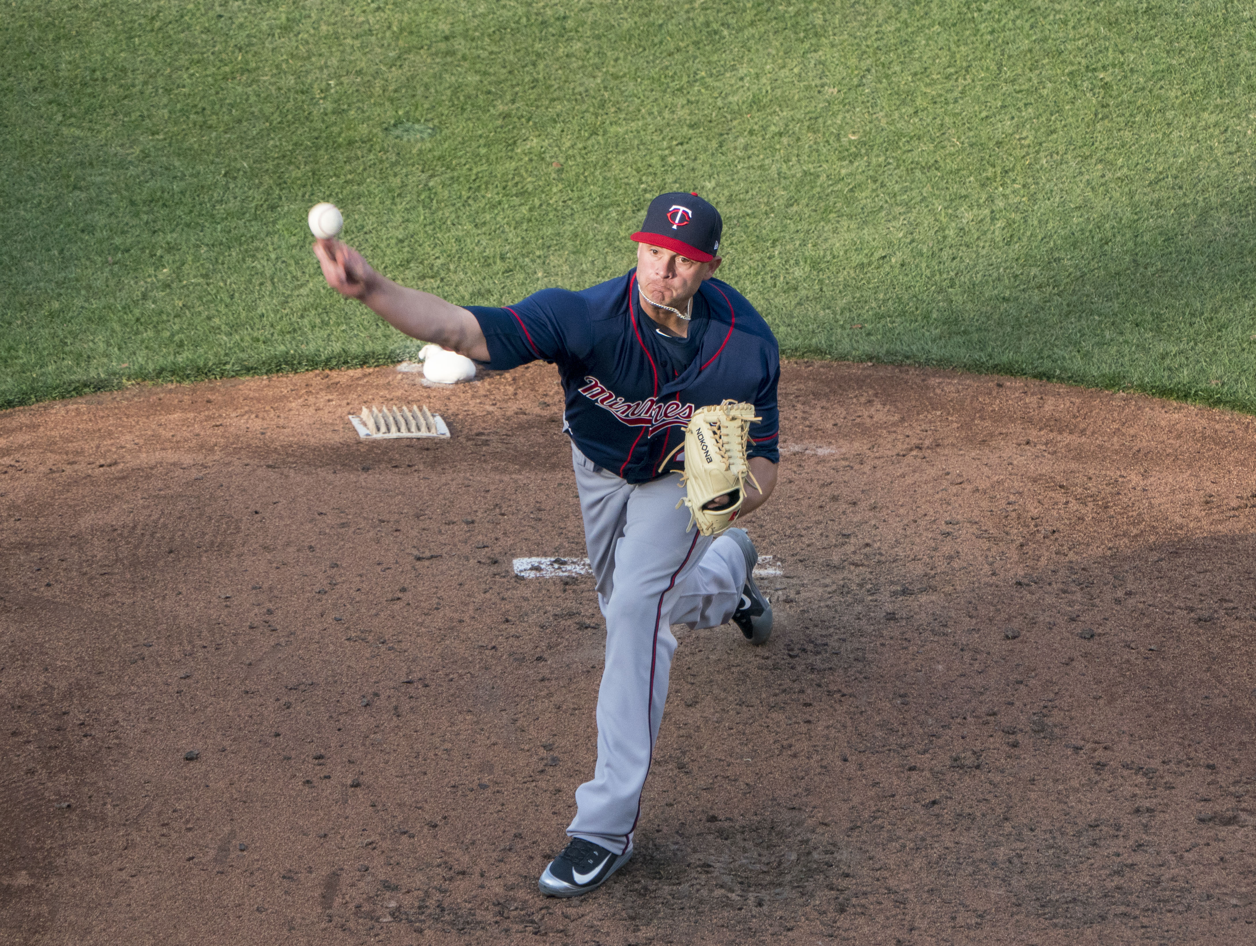 Twins at Orioles 3/29/18